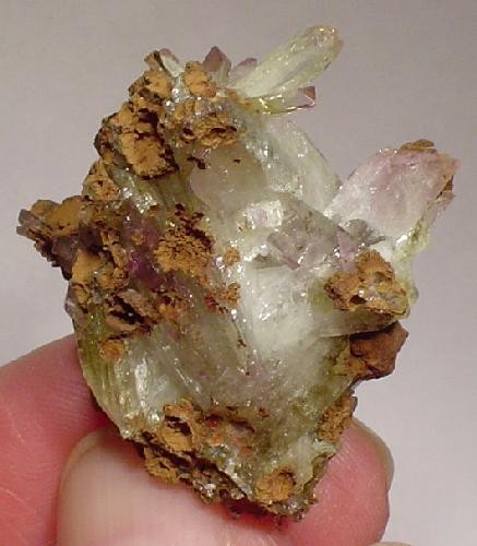 Adamite Locality: Ojuela Mine, Mapimí, Municipio de Mapimí, Durango, Mexico (Locality at ) Size: 3.7 x 3.0 x 2.9 cm. A nifty jackstraw cluster of gemmy, highly lustrous, colorless adamite crystals with the always desirable, purple tips from the famous 1981 find at Mina Ojuela, Mexico. The smaller crystals are beautifully gem-like, with their lavender, chisel-like terminations. Many of the crystals are doubly terminated. The scattered, attached gossan matrix is actually a nice compliment. Ex. Ed Swoboda Collection.